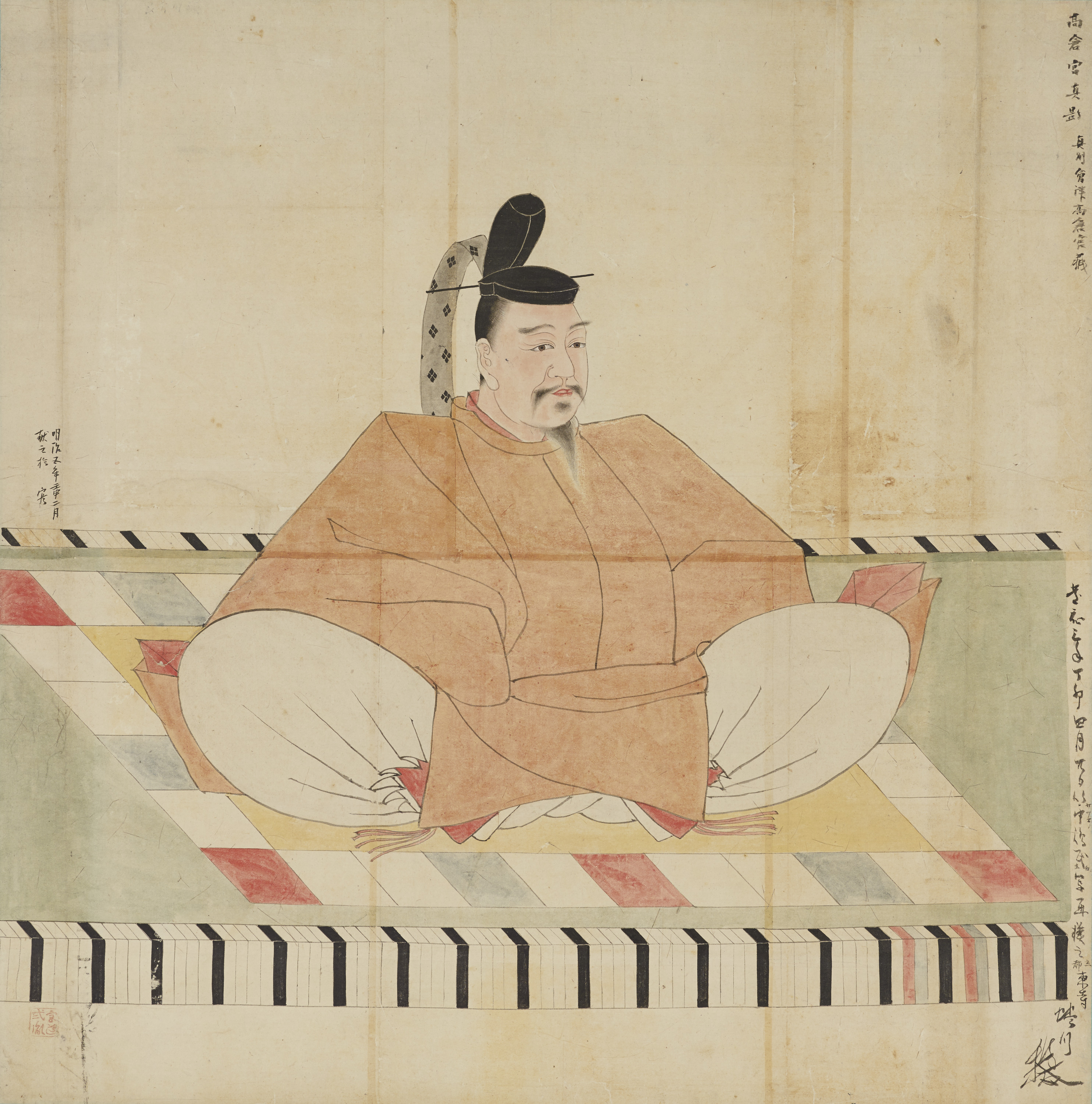 The portrait of Prince Mochihito copied by Ninagawa Chikatane (Ninagawa Noritane) in 1872. A collection of Tokyo National Museum.